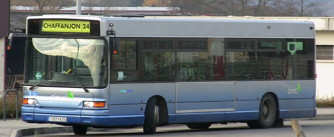 A Ginko campagny bus, in Besançon (Doubs, France).